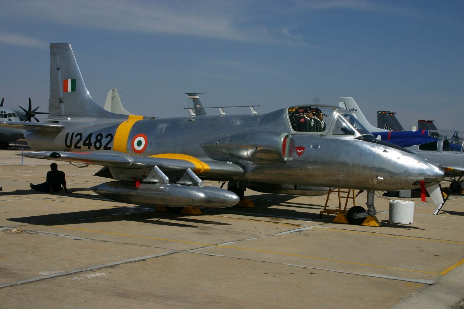 At Bangalore Yelahanka Air Force Base